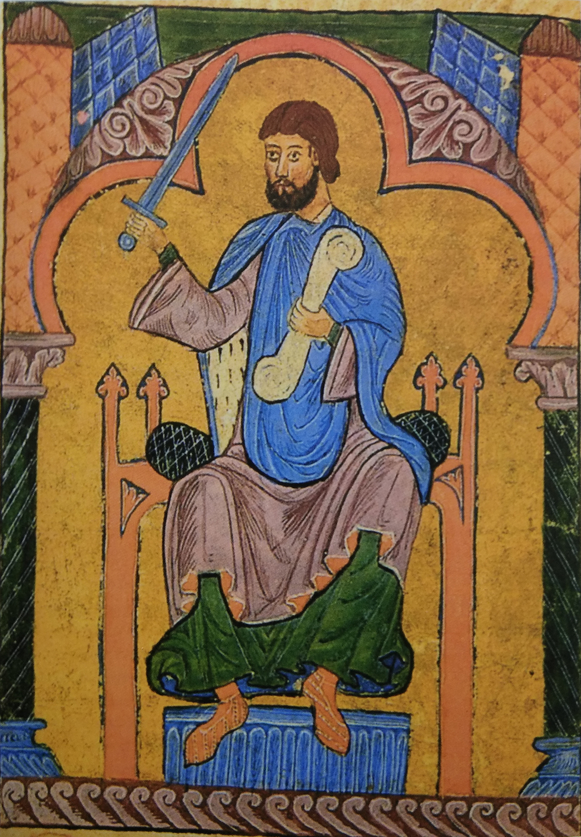 Raymond of Burgundy. Count of Galiza.